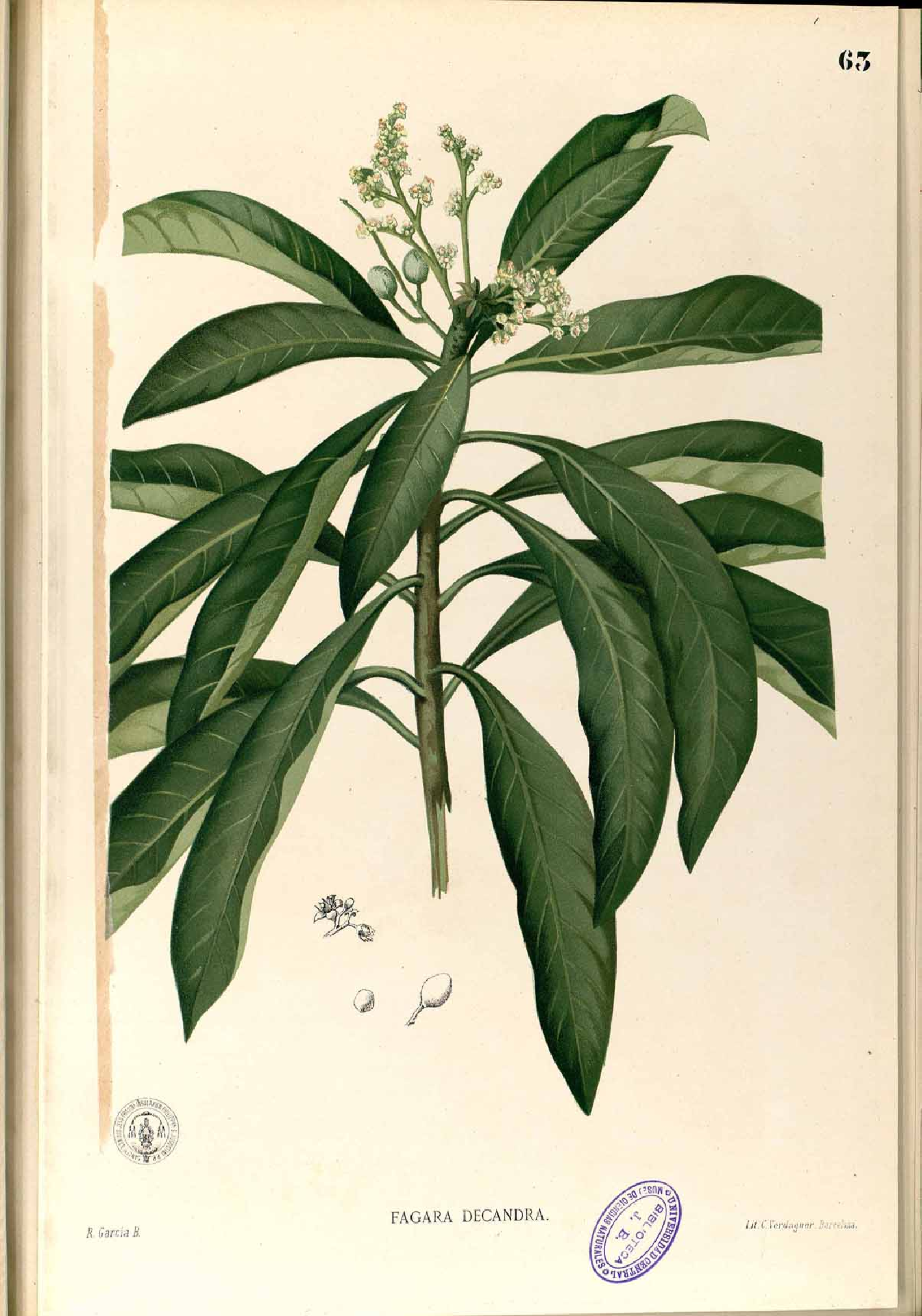 Plate from book